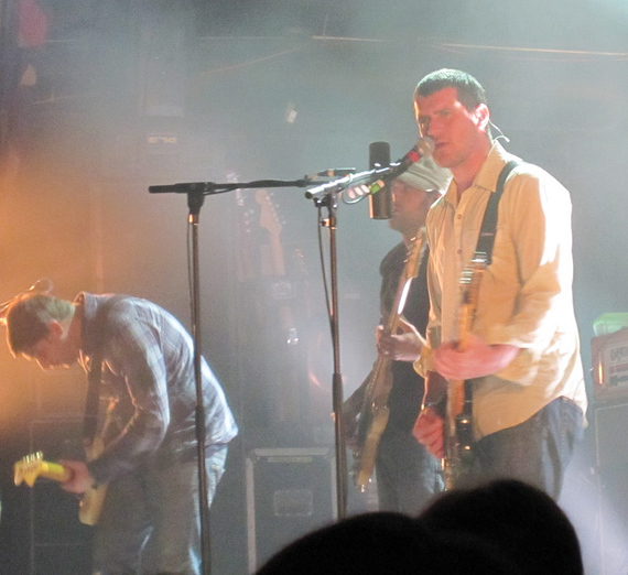 Brand New performing live in a concert with Manchester Orchestra at the House of Blues in San Diego, October 2009. Cropped to centralise and remove heads out of the original image with Photoshop.